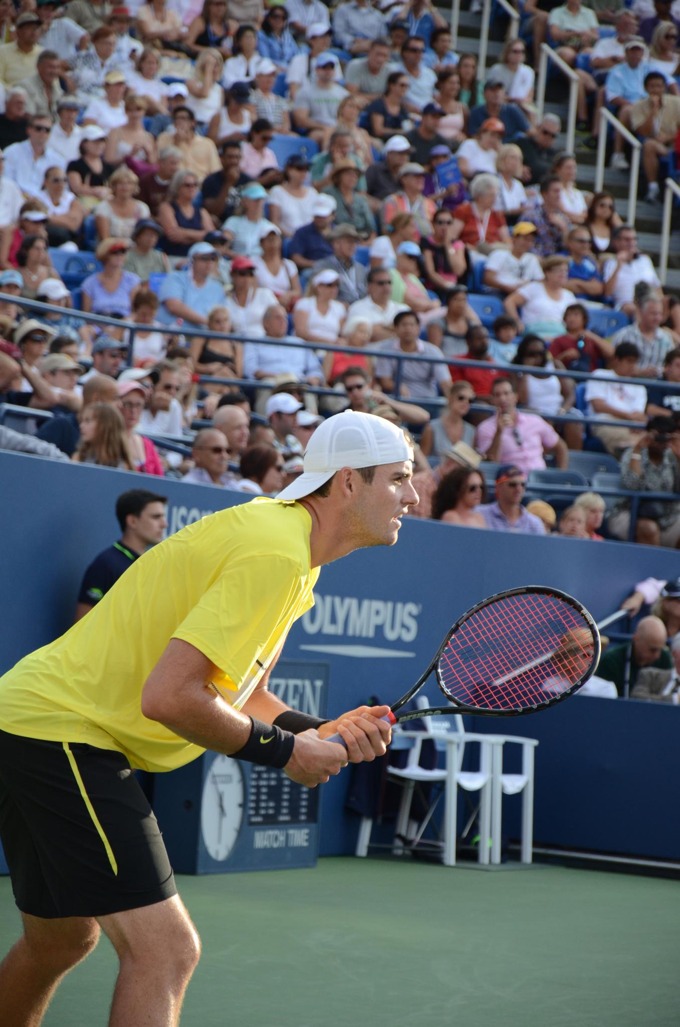 John Isner at the US Open 2011, 2nd Round